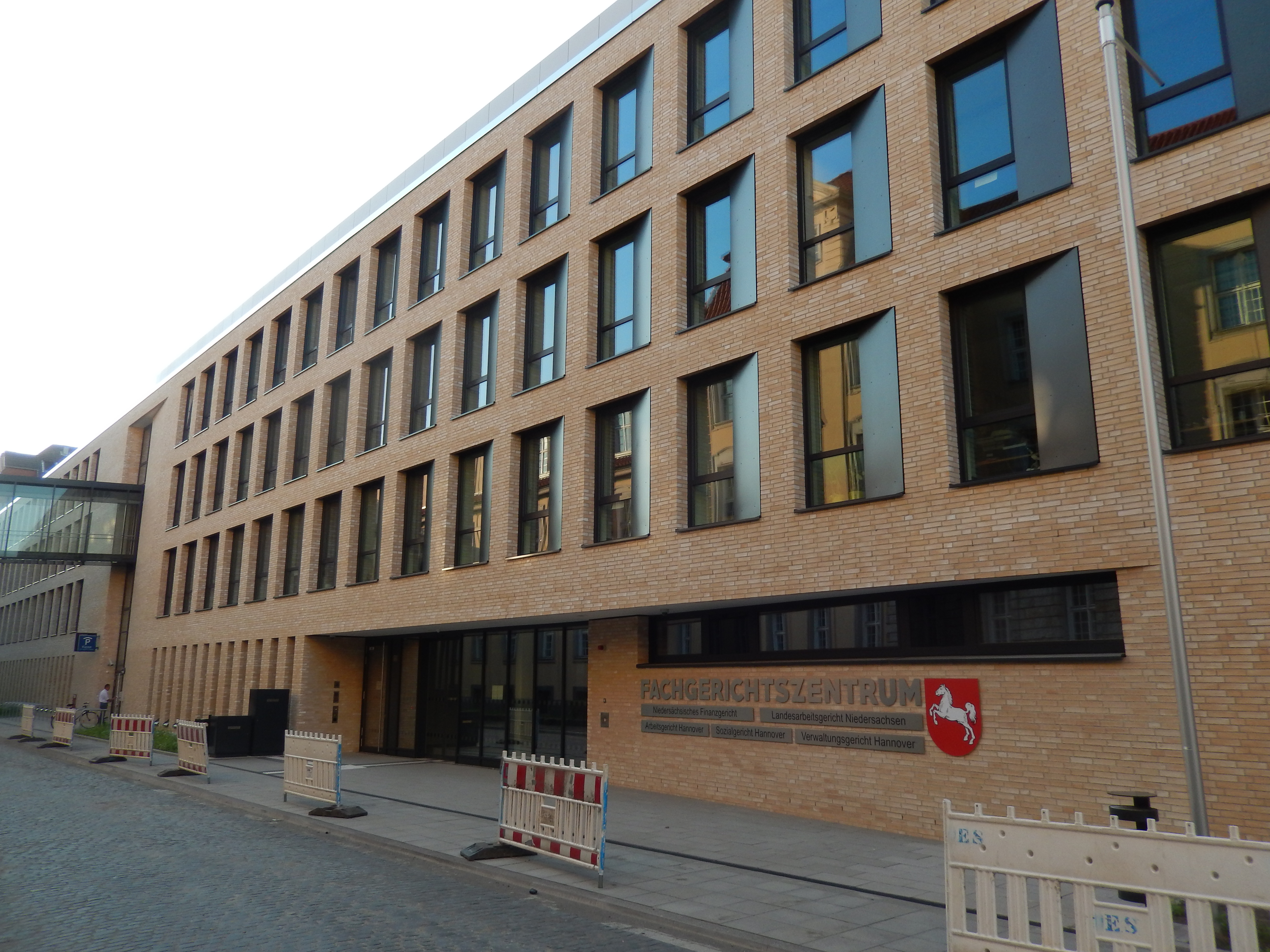 Court in Hannover, Germany.